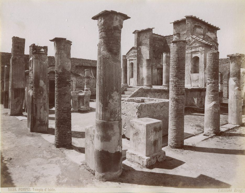 Giacomo Brogi (1822-1881) - "Pompeii. Temple of Isis". Around 1870. Catalogue: # 5038.